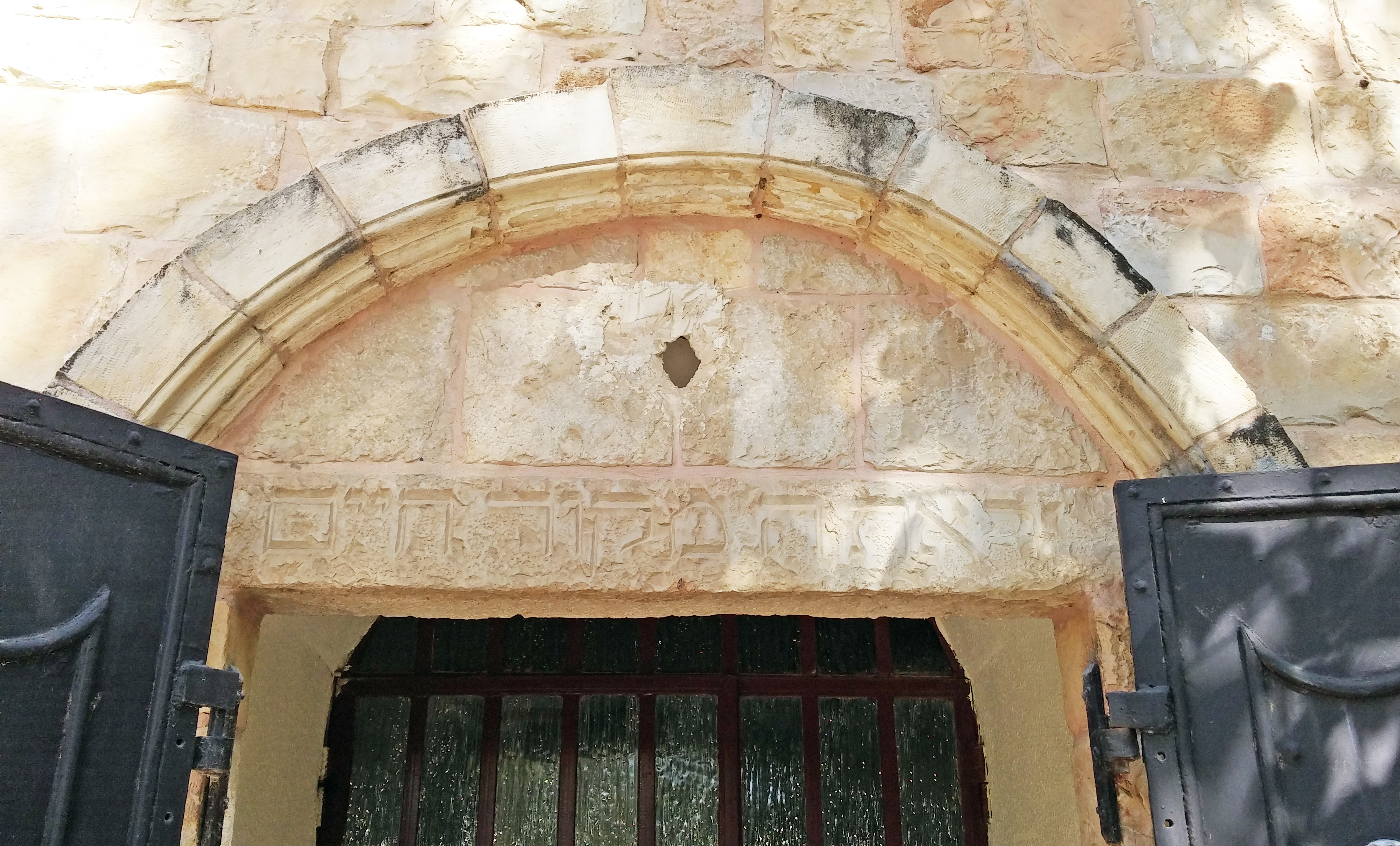 Kerem Avraham in Jerusalem